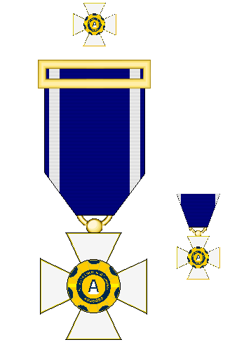 Medal for Professional Merit of the Parroquial Comission of Andorra